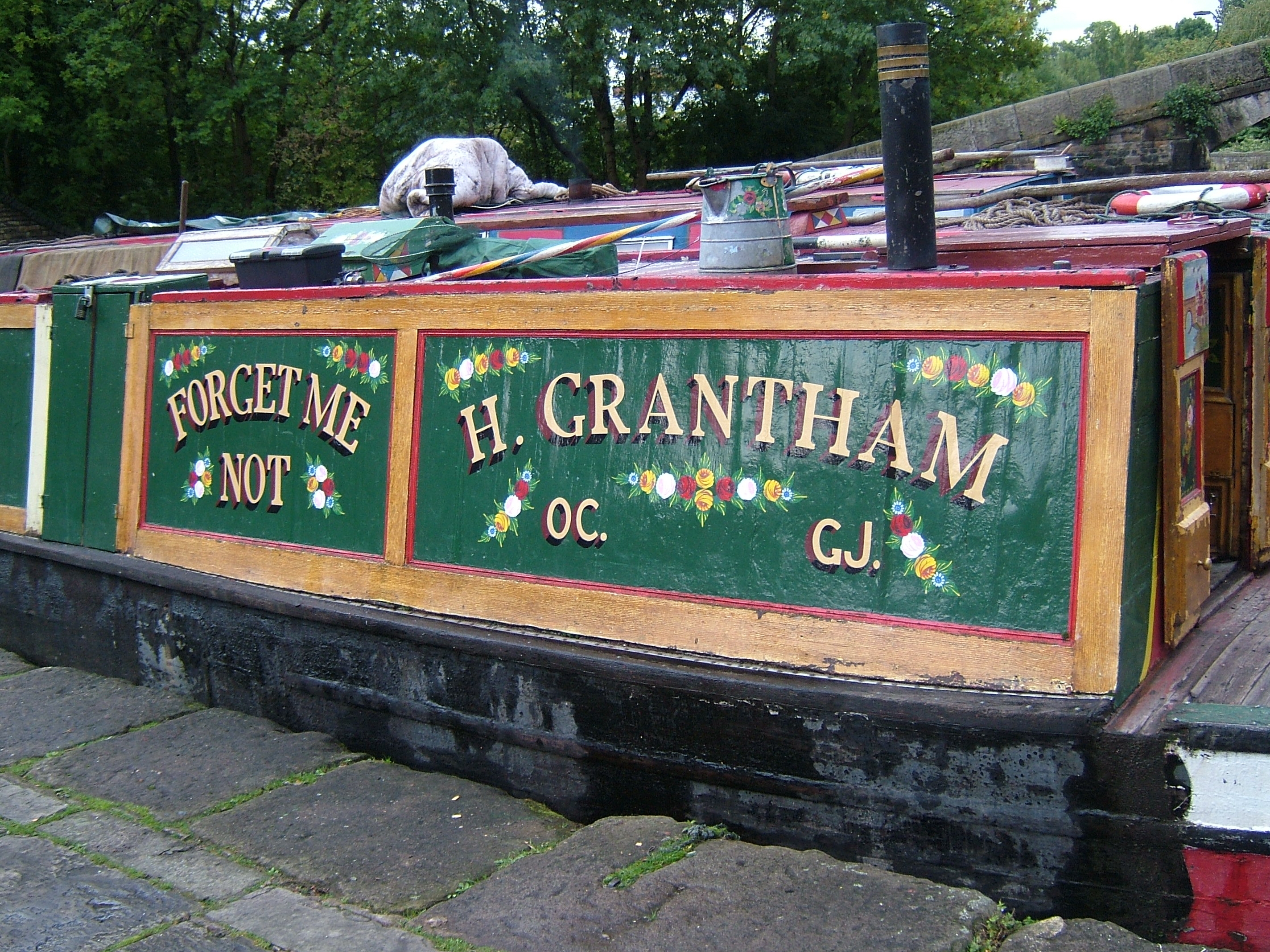 The Forget-Me-Not, a working wooden canal boat owned by the Wooden Canal Boat Society is berthed at thePortland Basin, on the Ashton Canal in Ashton-under-Lyne, Tameside. Traditional painting.